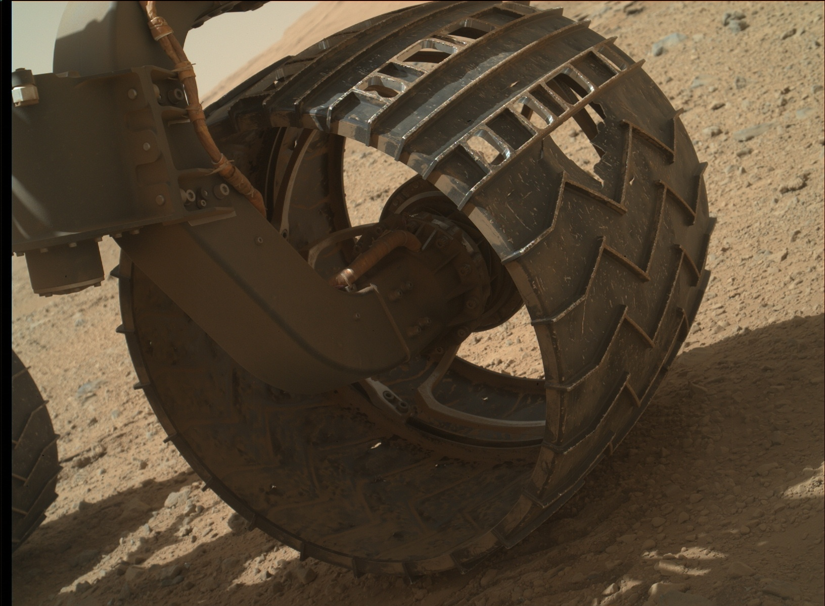 NASA's Mars rover Curiosity acquired this image using its Mars Hand Lens Imager (MAHLI), located on the turret at the end of the rover's robotic arm, on February 18, 2014, Sol 546 of the Mars Science Laboratory Mission, at 02:14:31 UTC. When this image was obtained, the focus motor count position was 12660. This number indicates the internal position of the MAHLI lens at the time the image was acquired. This count also tells whether the dust cover was open or closed. Values between 0 and 6000 mean the dust cover was closed; values between 12500 and 16000 occur when the cover is open. For close-up images, the motor count can in some cases be used to estimate the distance between the MAHLI lens and target. For example, in-focus images obtained with the dust cover open for which the lens was 2.5 cm from the target have a motor count near 15270. If the lens is 5 cm from the target, the motor count is near 14360; if 7 cm, 13980; 10 cm, 13635; 15 cm, 13325; 20 cm, 13155; 25 cm, 13050; 30 cm, 12970. These correspond to image scales, in micrometers per pixel, of about 16, 25, 32, 42, 60, 77, 95, and 113. Most images acquired by MAHLI in daylight use the sun as an illumination source. However, in some cases, MAHLI's two groups of white light LEDs and one group of longwave ultraviolet (UV) LEDs might be used to illuminate targets. When Curiosity acquired this image, the group 1 white light LEDs were off, the group 2 white light LEDs were off, and the ultraviolet (UV) LEDS were off.